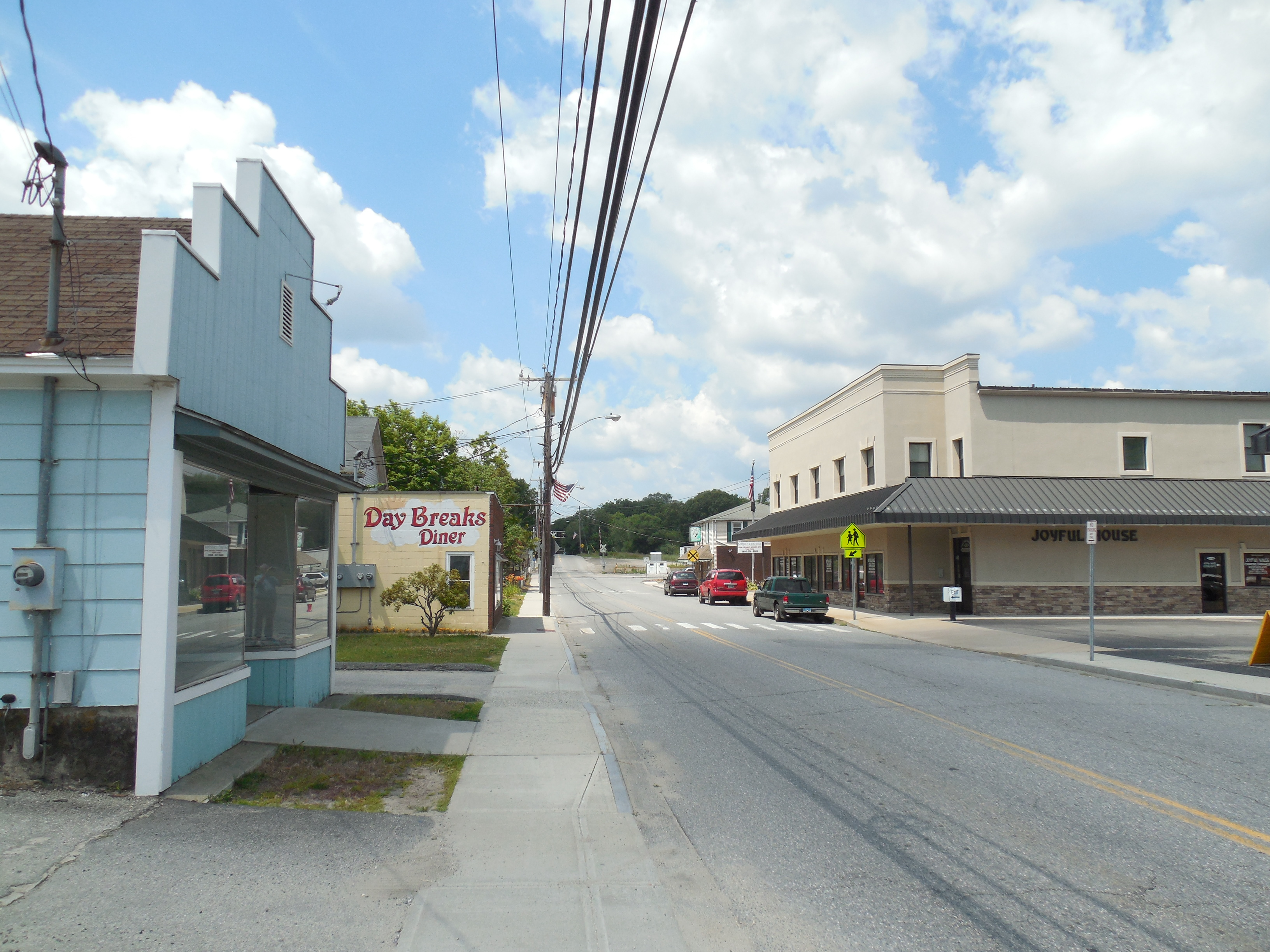 Railroad Avenue, Plainfield Connecticut